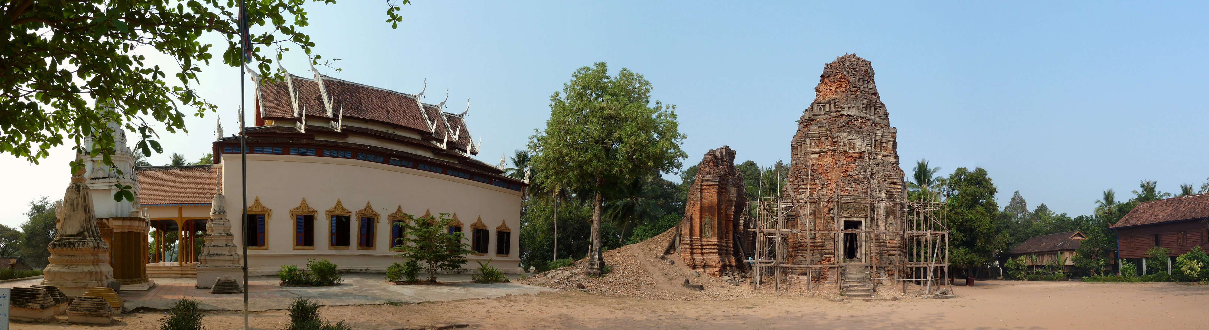 Lolei with monastry